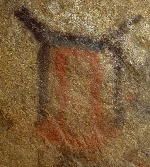 Painting of a building (c.550-600); Gorōyama Kofun, Chikushino, Fukuoka Prefecture, Japan